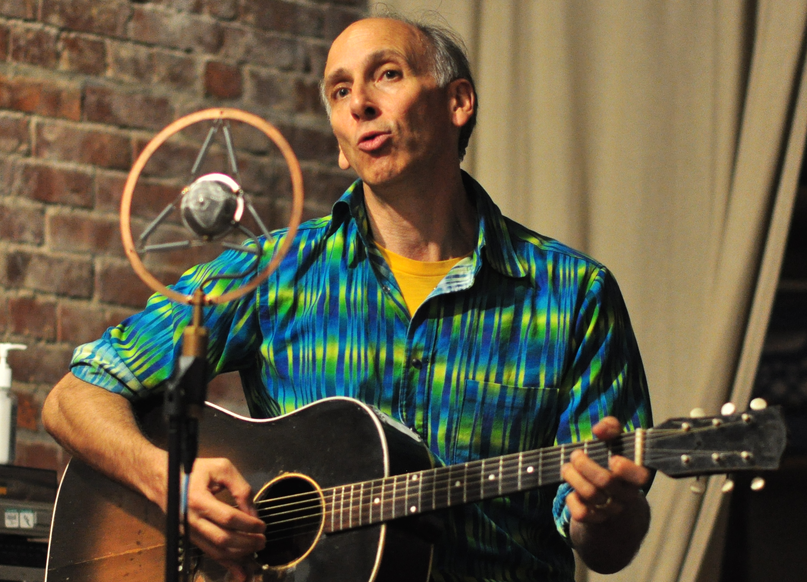 An event at Hillman City Collaboratory, Seattle, Washington July 30, 2016. The event included a talk by Wald about his book Dylan Goes Electric!: Newport, Seeger, Dylan, and the Night That Split the Sixties and performances (in various combination) by Andy Cohen, Wald, Wald's wife Sandrine Sheon, and Rick Ruskin.